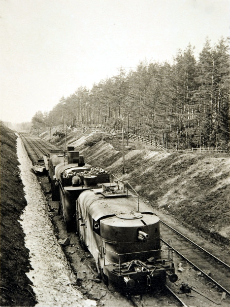 Red Guard armoured train at the Karelian front near Säiniö, Vyborg during the 1918 war